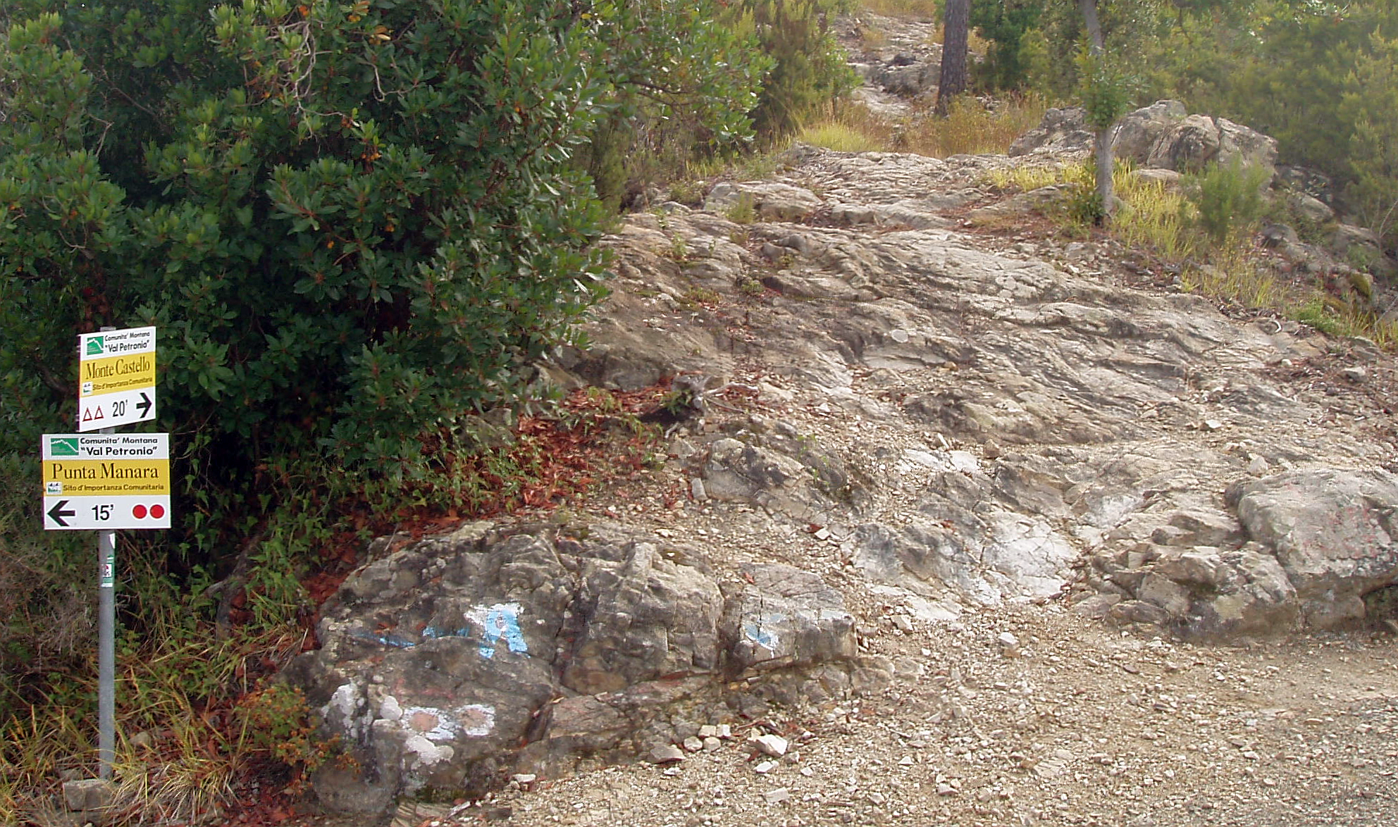 Hiking signs near Monte Castello (Sestri Levante, Italy)